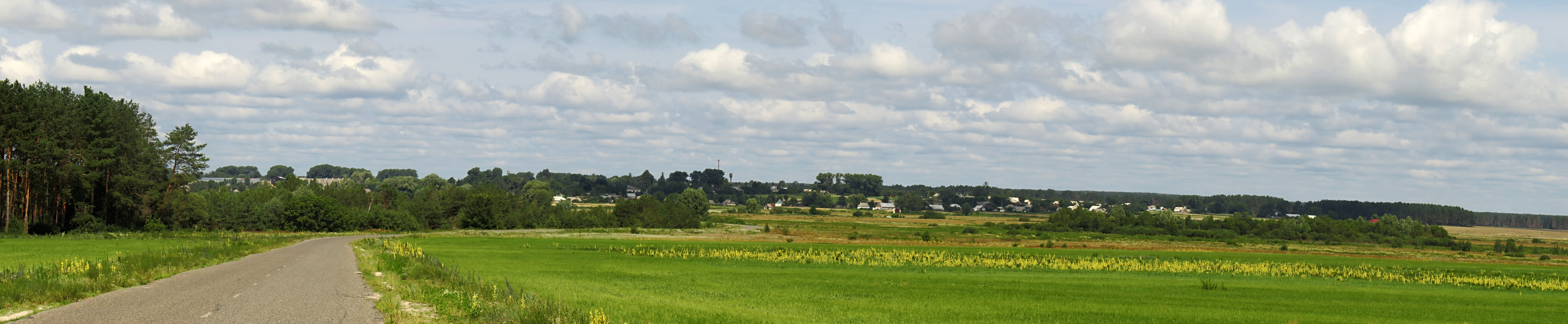 Nova Greblya, Borodianka raion, Kiev oblast, Ukraine. View from road Poroskoten — Nova Greblya